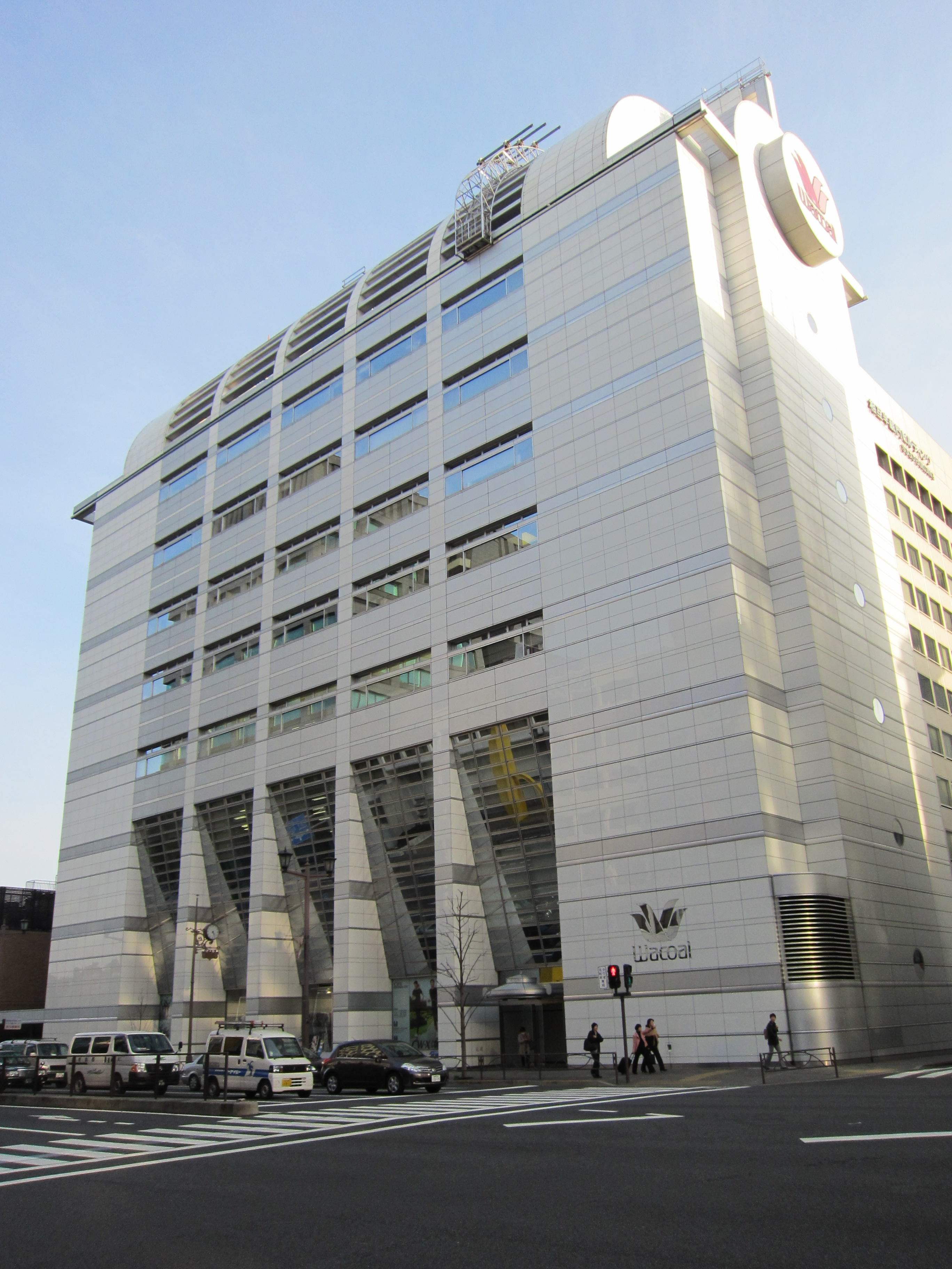 Wacol Kojimachi Building